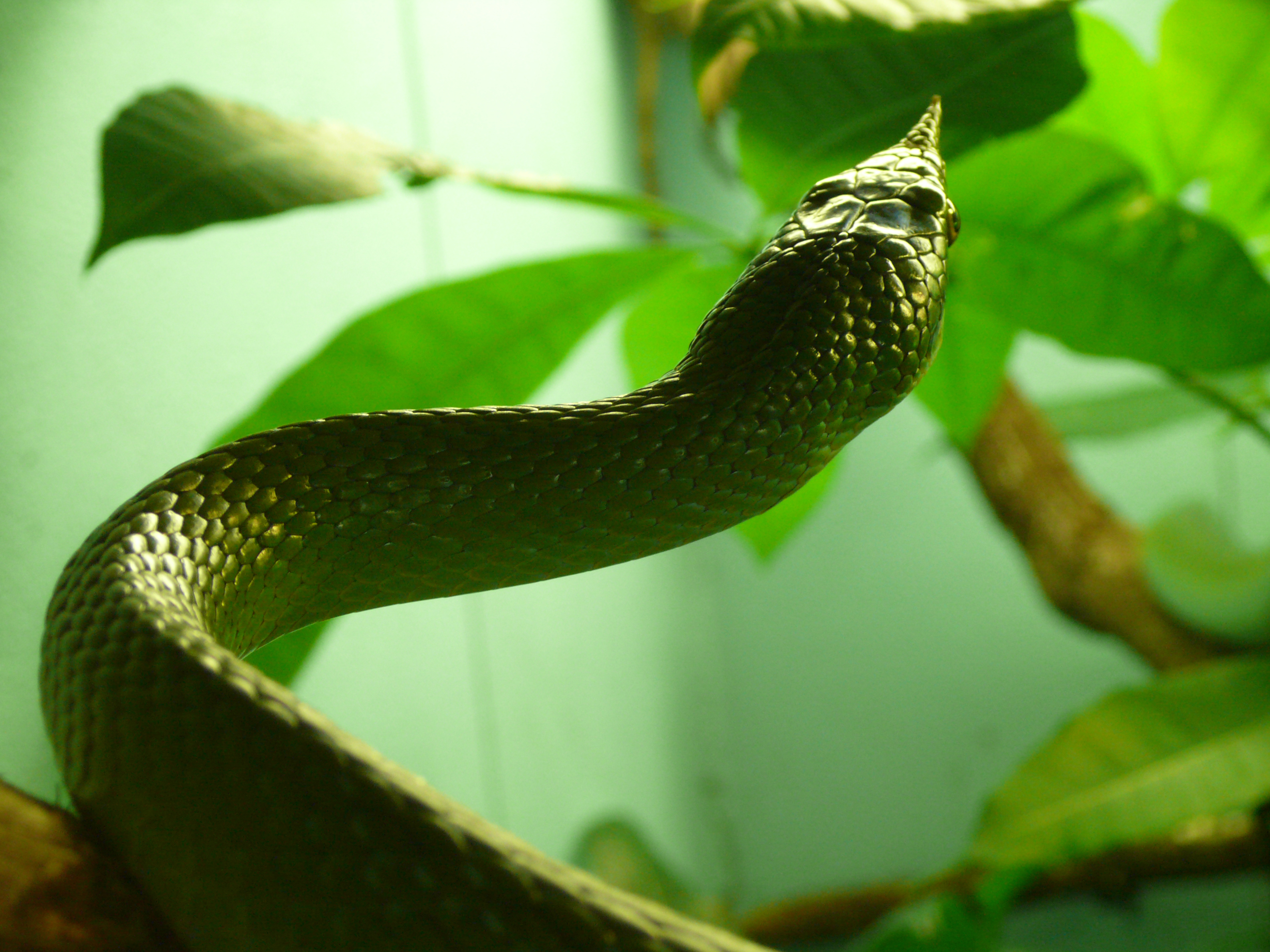 Vietnamese Long-Nosed Snake (Rhynchophis boulengeri)